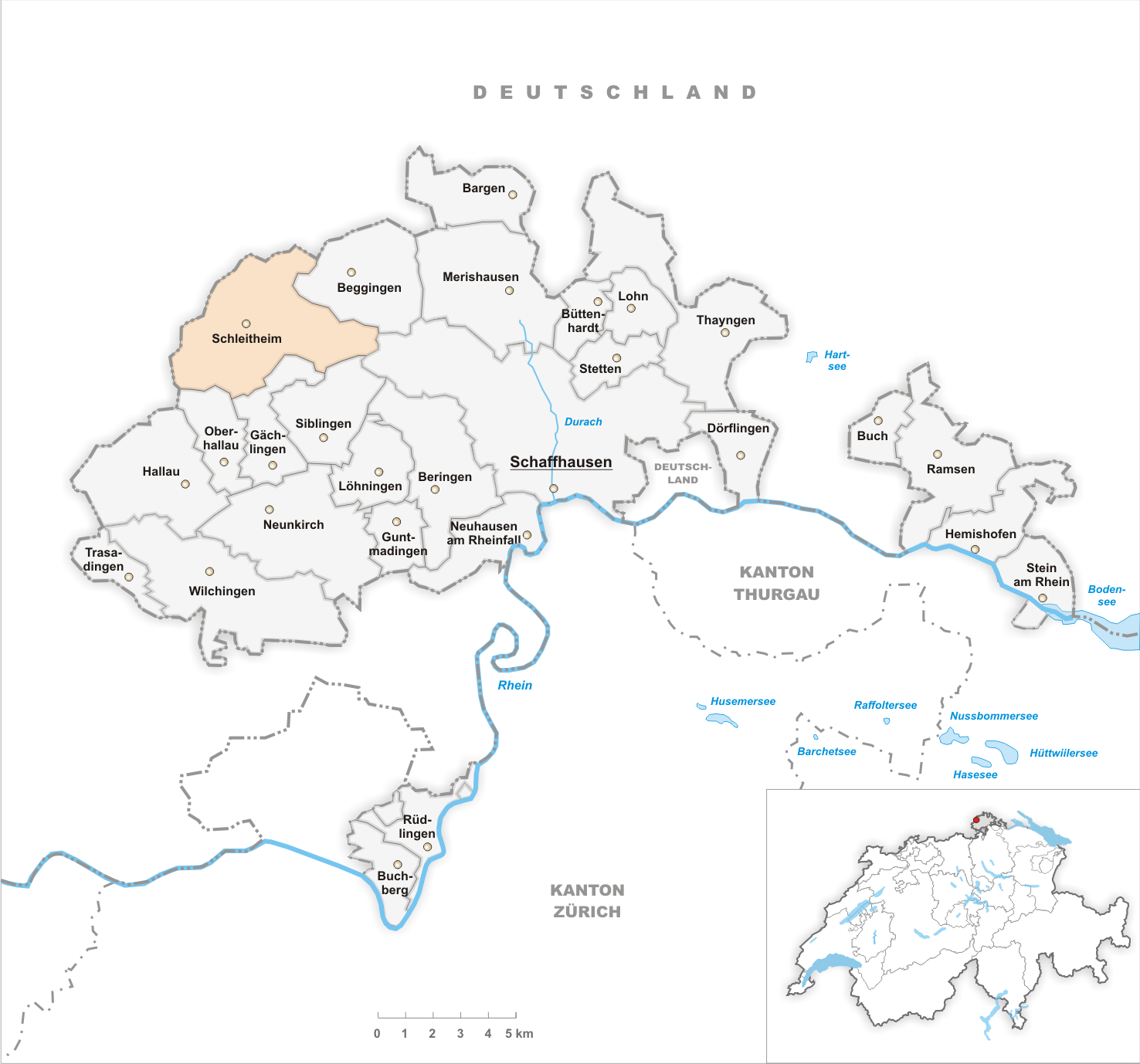 Municipality Schleitheim